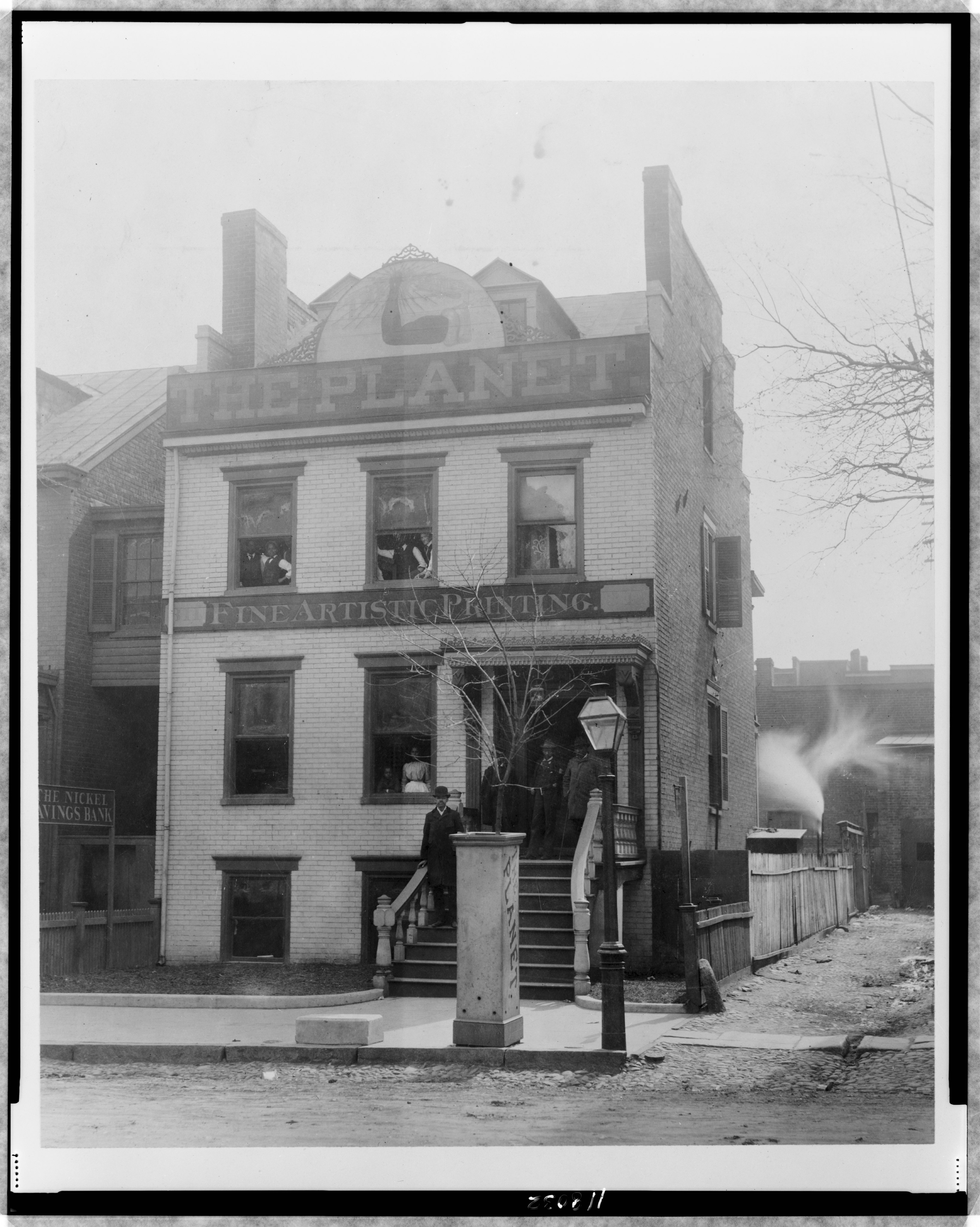 Title: People posed on porch of and in the Planet newspaper publishing house, Richmond, Virginia Physical description: 1 photographic print. Notes: Displayed as part of the American Negro exhibit at the Paris Exposition of 1900.